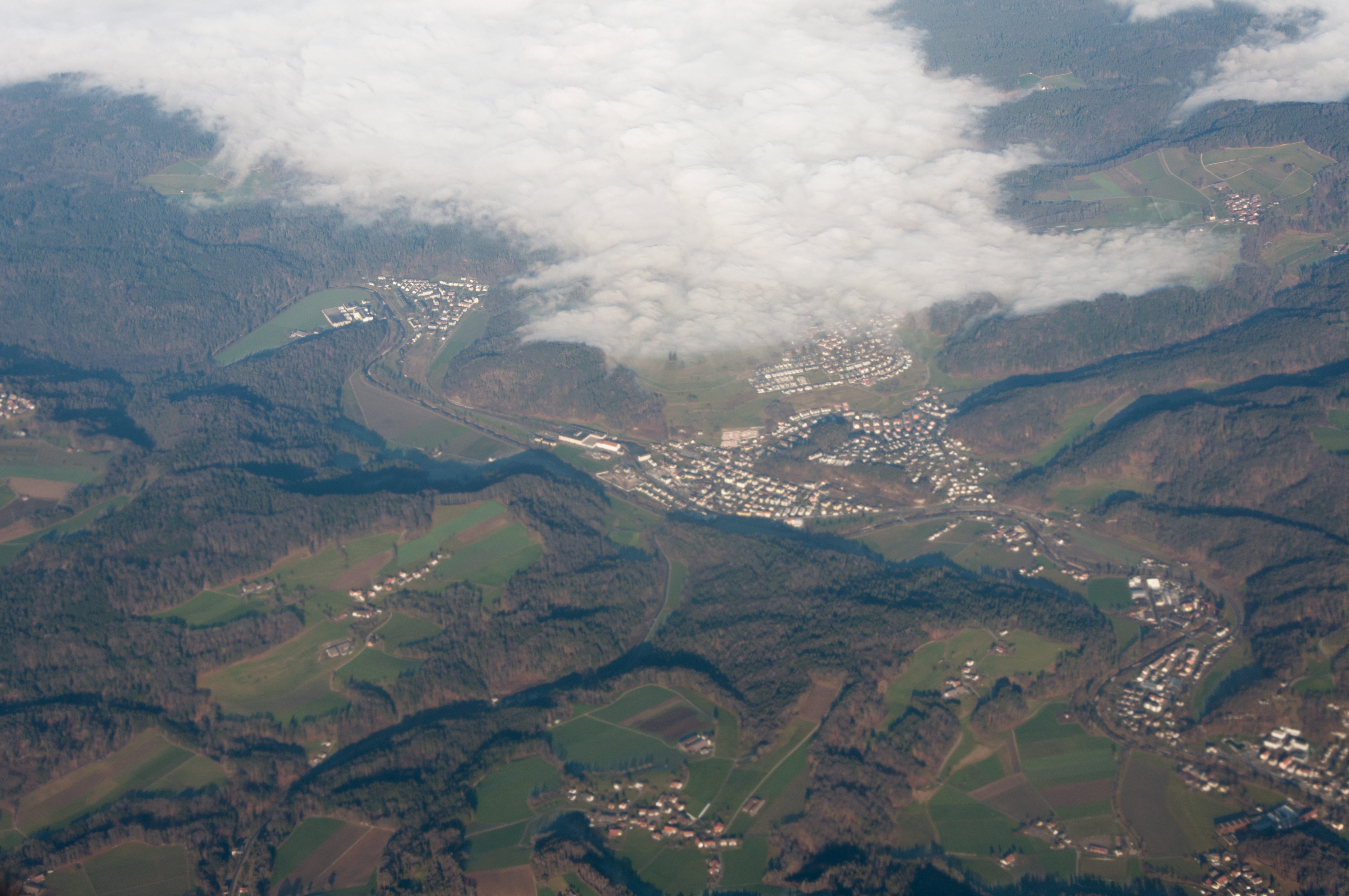 Switzerland, Canton of Zürich, aerial view of Kollbrunn from 4100 m asl.